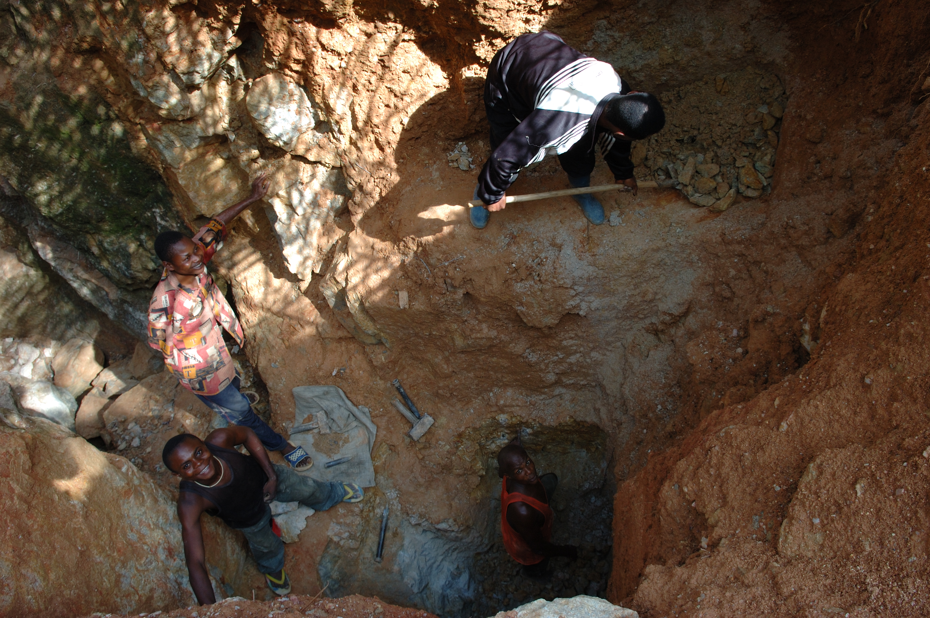 Wolframite and Casserite mining in the Democratic Republic of the Congo.